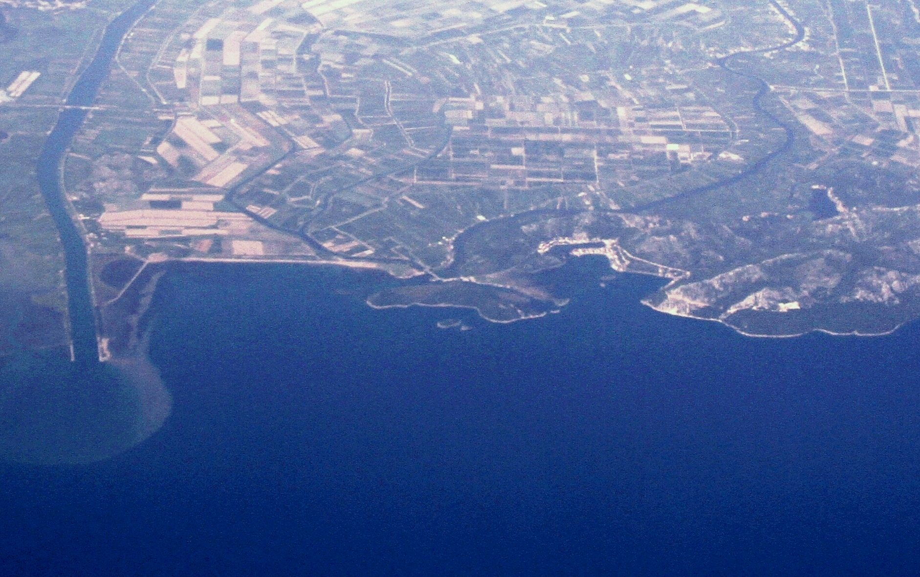 Osinj island